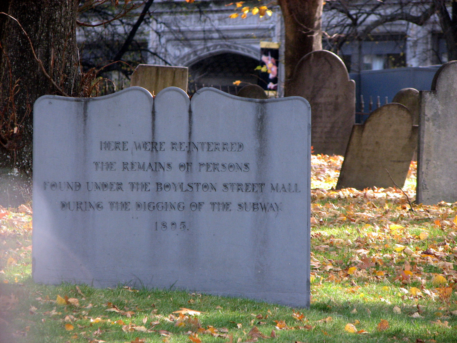 Boston, Mass.